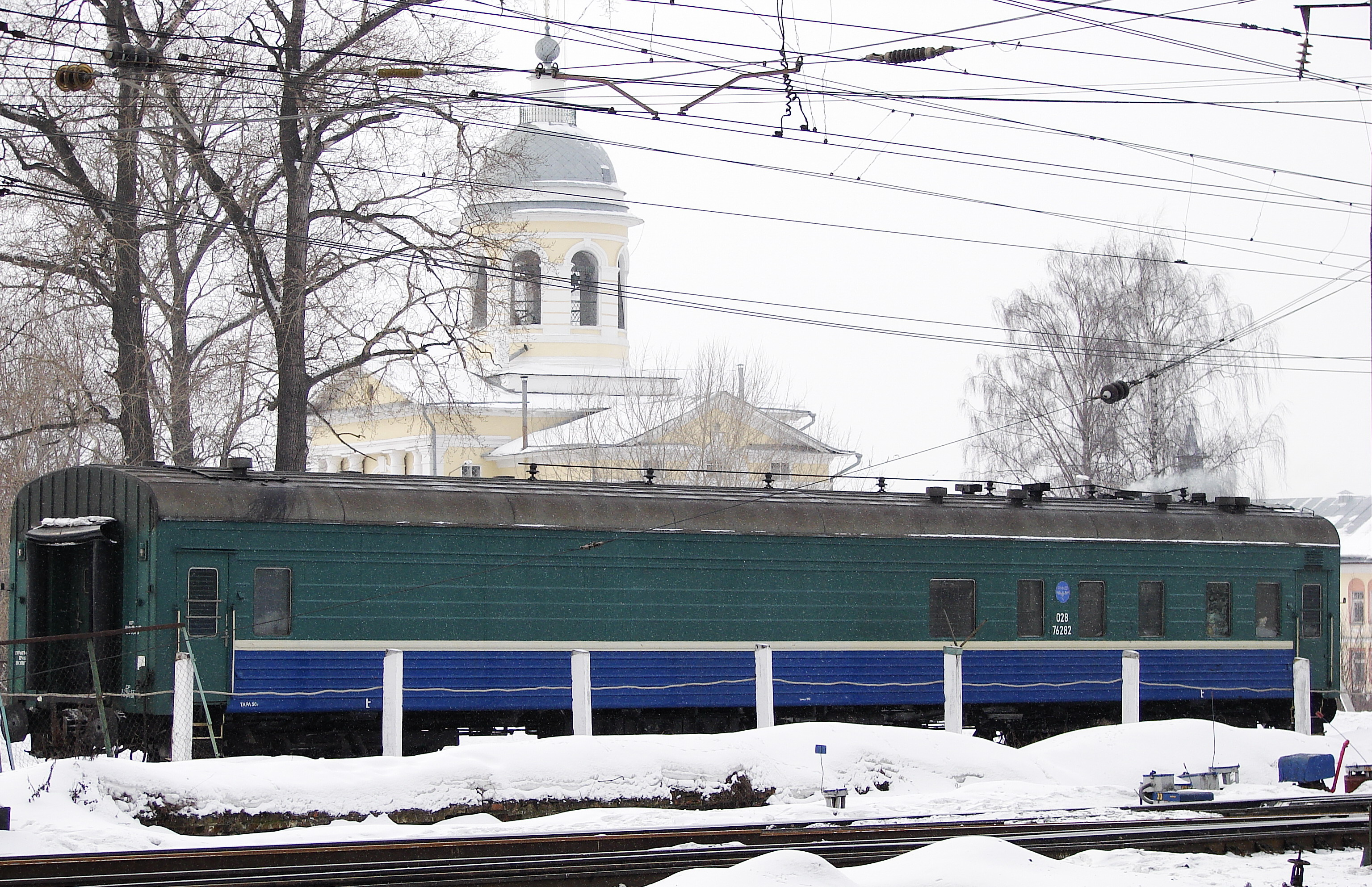 Prisoner train.